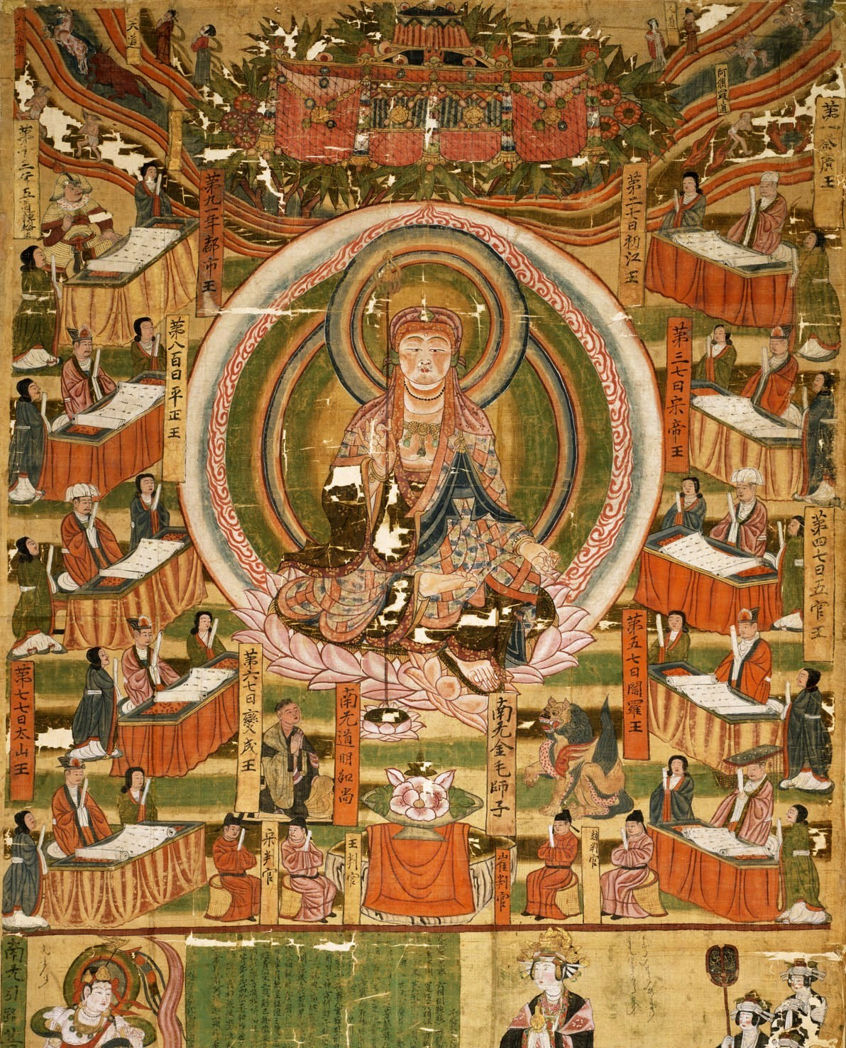 Bodhisattva Kshitigarbha and The Ten Kings of Hell. X century, Dunhuang, Musée Guimet, Paris.